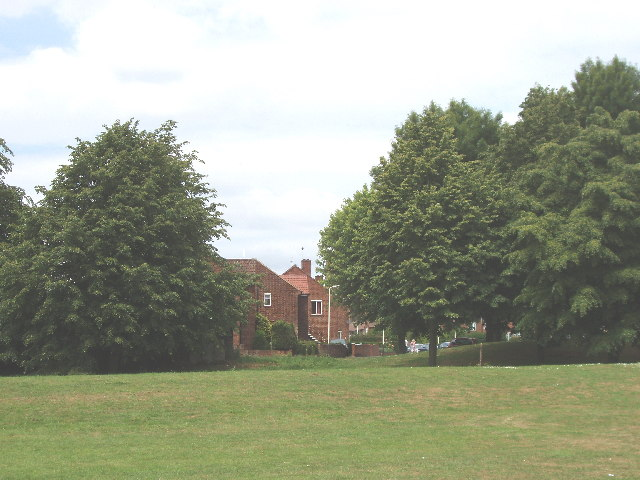 Wetherby Close, Petts Hill - former Northolt Park Racecourse. 1200 houses were built from 1951 on an area developed in 1929 for pony racing. The racecourse company went into receivership in 1937, after the 2nd World War Ealing council needed land for housing. The racing fraternity tried to retain a course, but the housing went ahead - some of it built for Harrow council. Street names are those of racecourses - Cheltenham, Thirsk, Ascot, Ripon, etc.